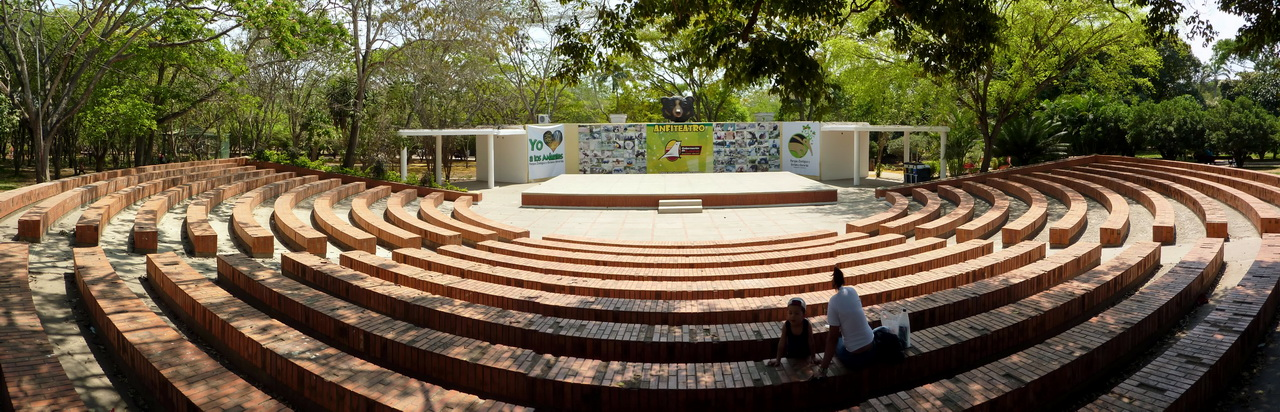 theater in the Bararida Park